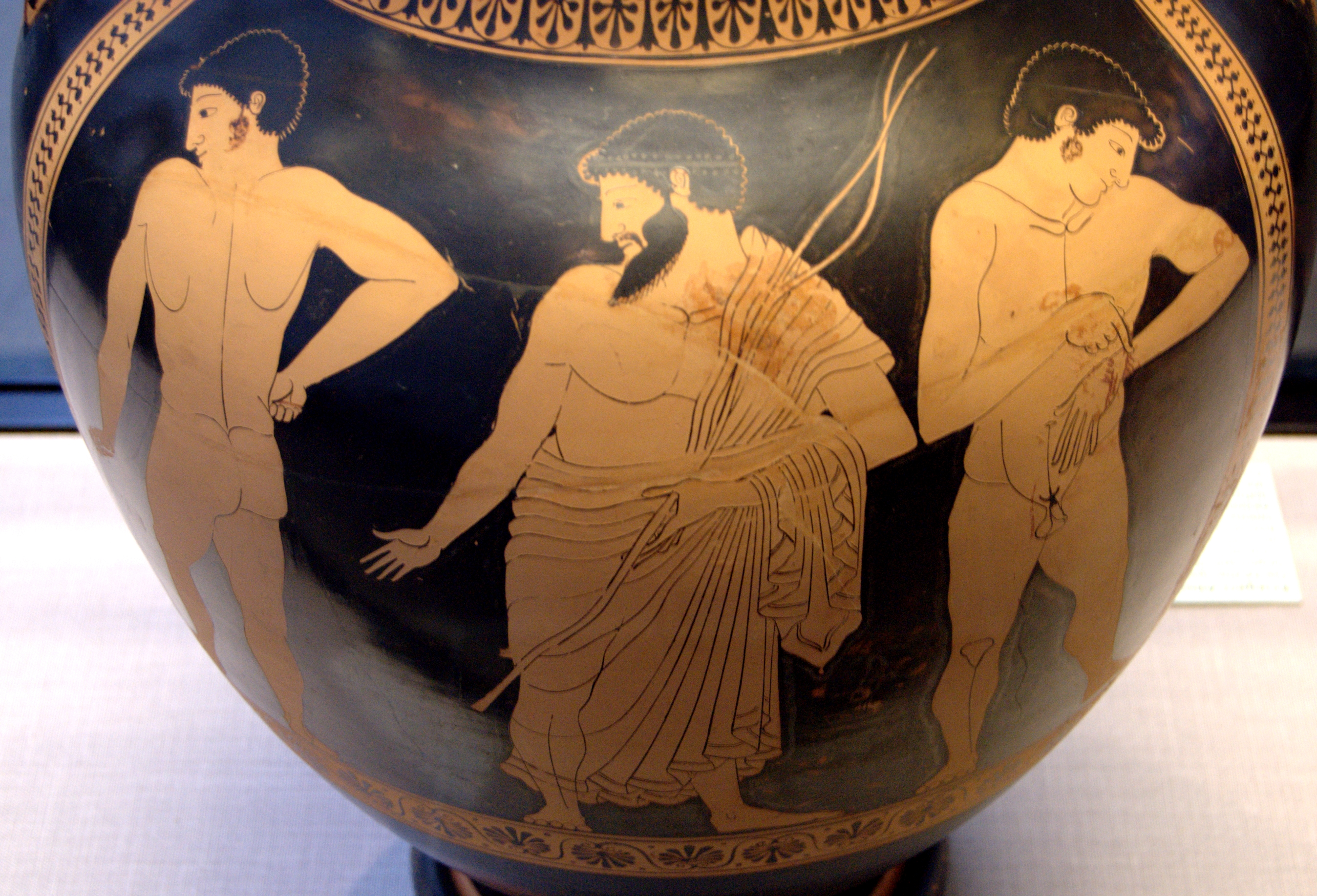 Boxers and trainer. Side B of an Attic red-figure belly-amphora.